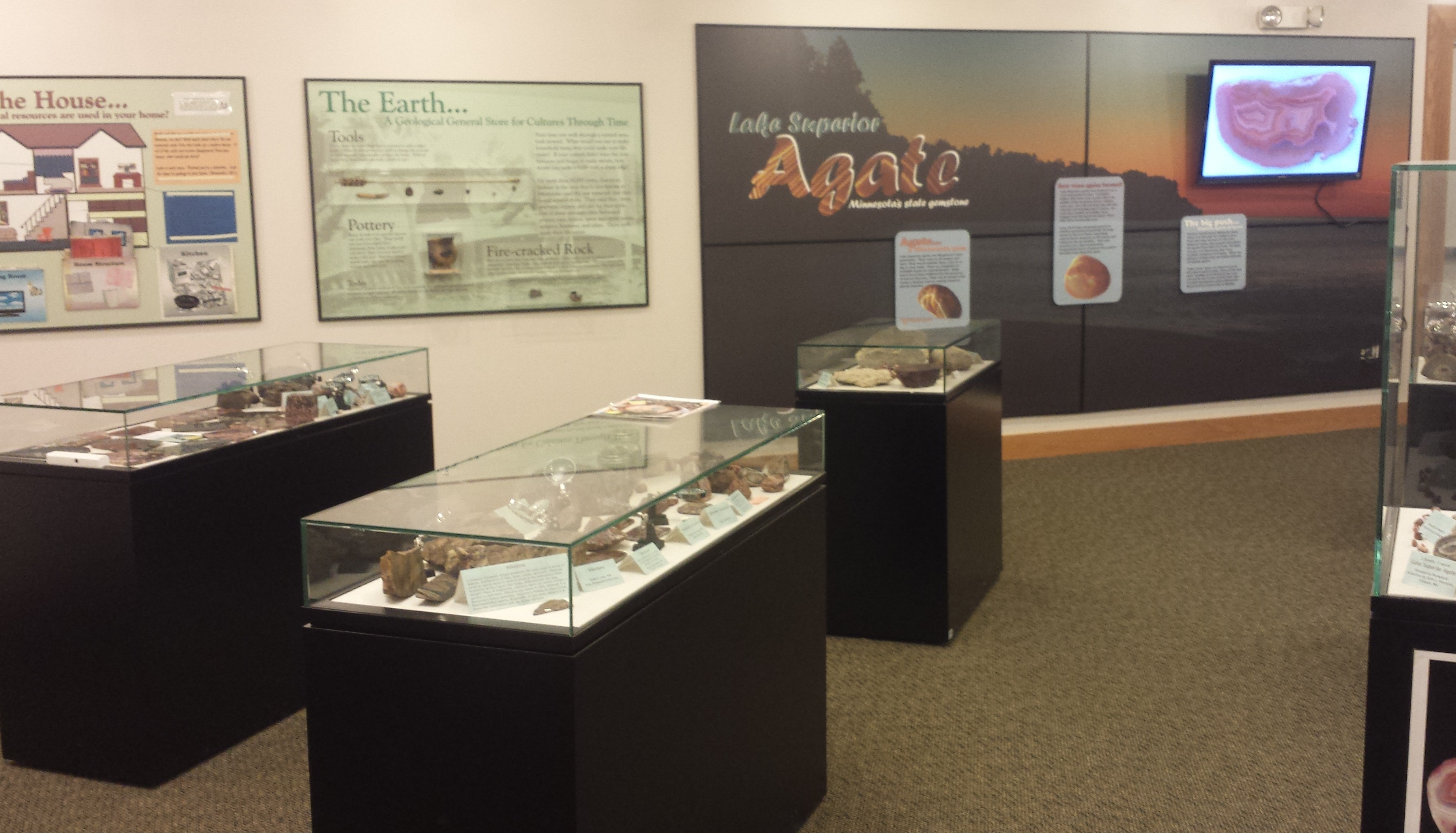 Agate/Geological Interpretive Center Exhibit